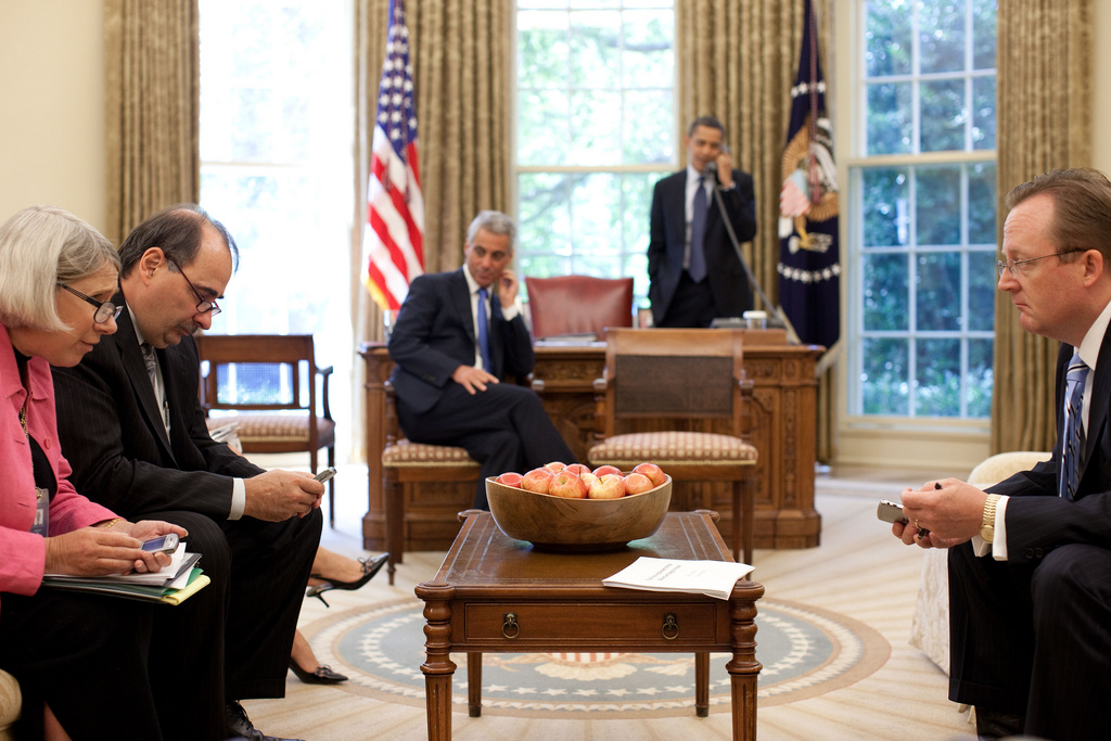 President Barack Obama talks on the telephone before a meeting with Communications Director Anita Dunn, left, Senior Advisor David Axelrod, Chief of Staff Rahm Emanuel and Press Secretary Robert Gibbs in the Oval Office.